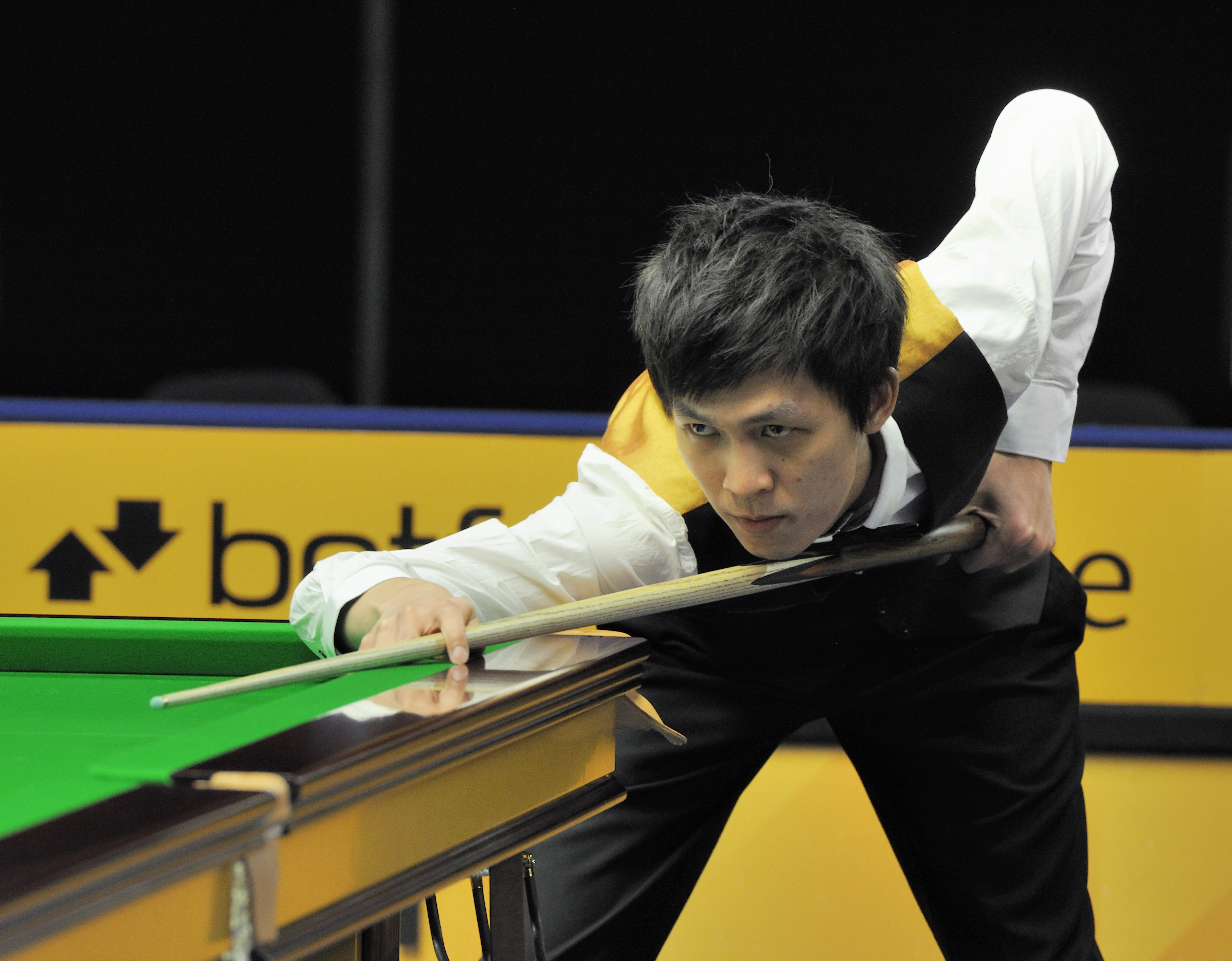 Picture taken in Berlin during the Snooker German Masters in 2013. Thepchaiya Un-Nooh.